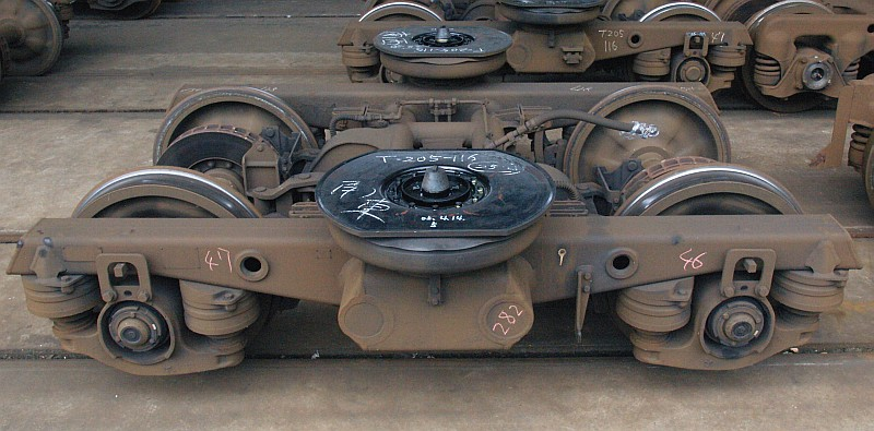 Type TR235D bogie truck of JRE Saha-205 EMU.